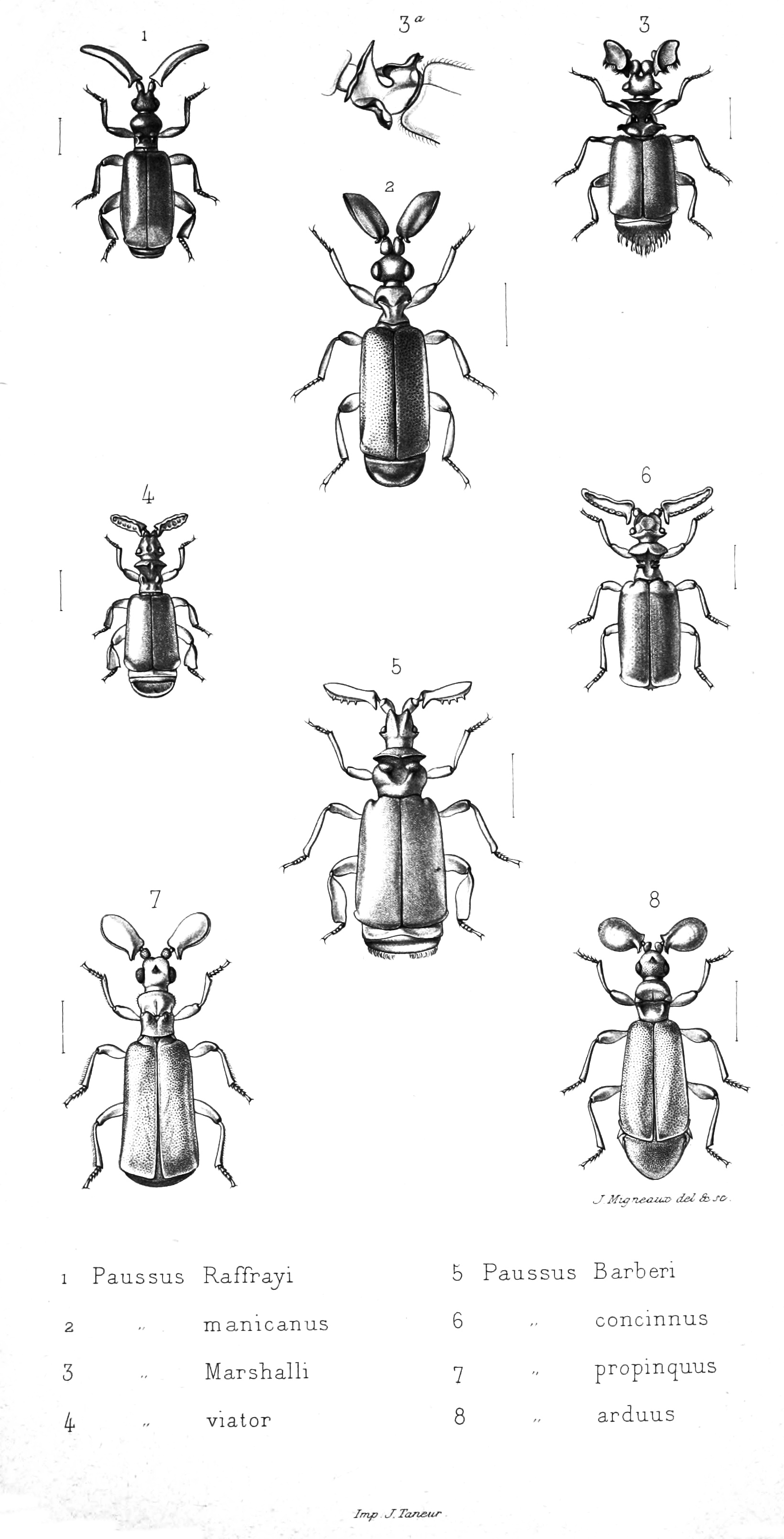 1) Paussus Raffrayi 2) Paussus manicanus 3) Paussus Marshalli 4) Paussus viator 5) Paussus barberi 6) Paussus concinnus 7) Paussus propinquus 8) Paussus arduus